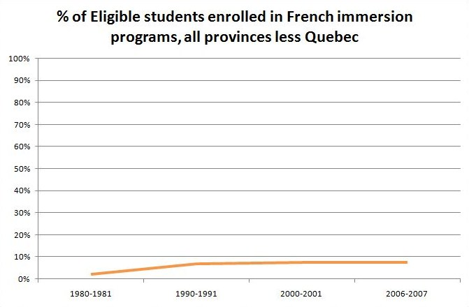 Chart showing rate of enrollement in French Immersion Programs in Canada, less Quebec 1980-2007.